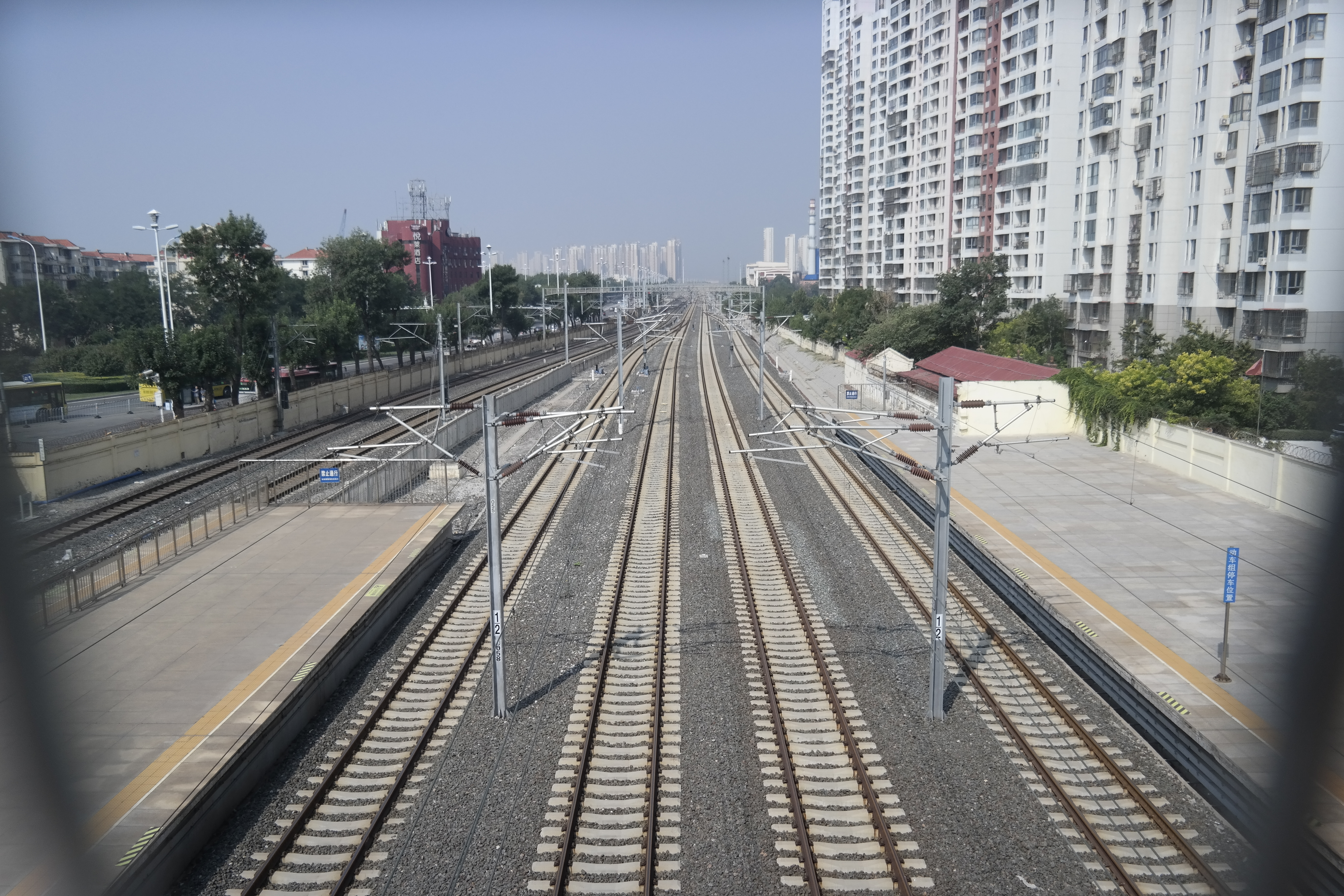 Tanggu Railway Station